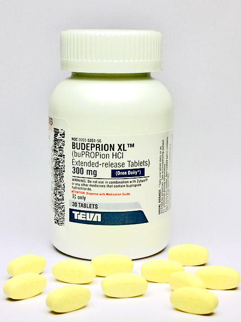 Budeprion XL 300mg tablet (generic Wellbutrin XL)